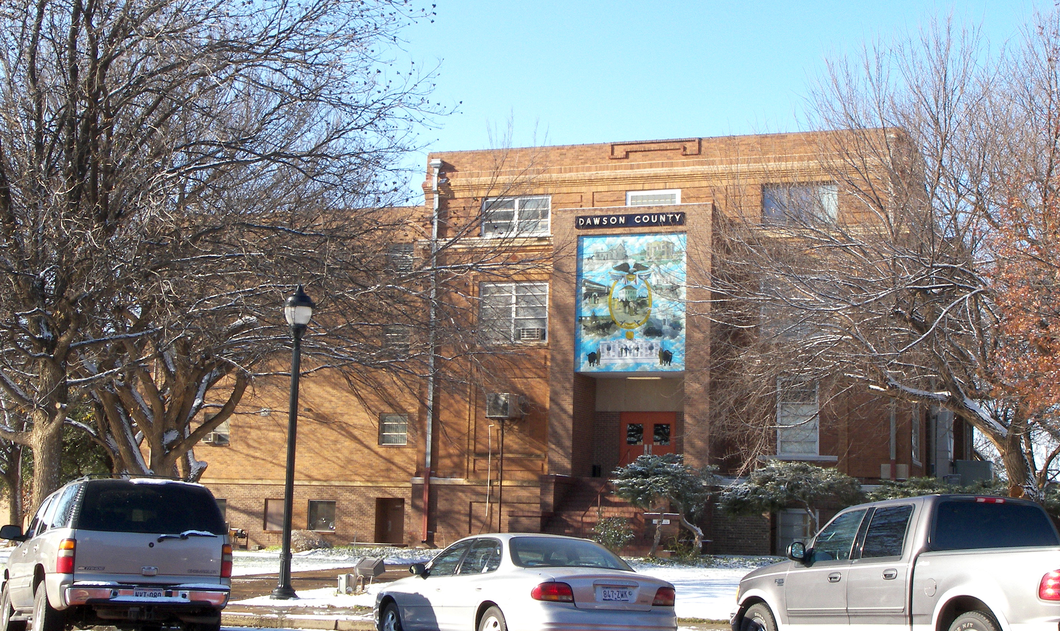 The Dawson County Courthouse, 400 S 1st St, Lamesa, Texas, United States.